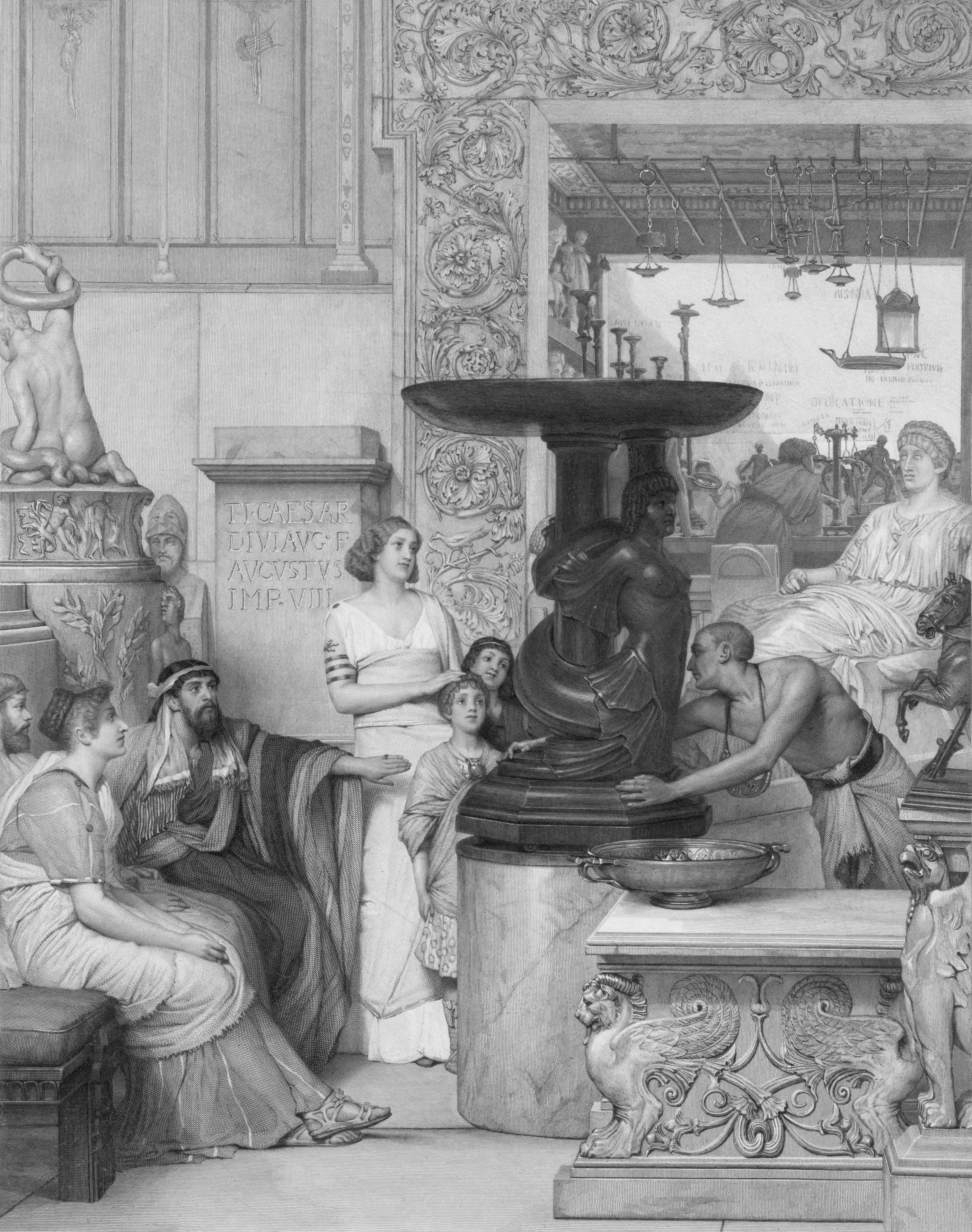 "The Sculpture Gallery" by Auguste Blanchard (1819-1898) after Lawrence Alma-Tadema (1836-1912)